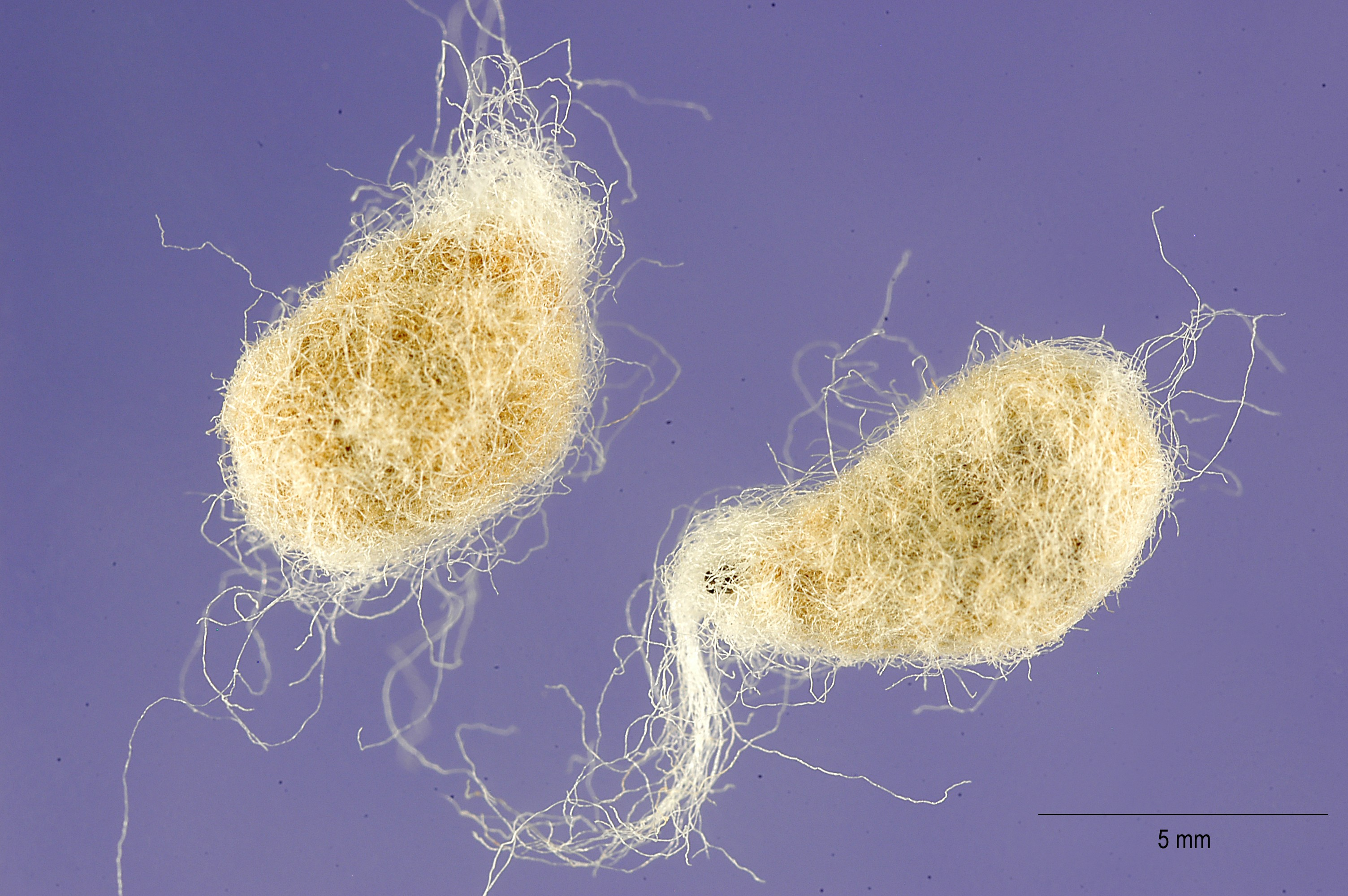 Seeds of tree cotton (Gossypium arboreum)